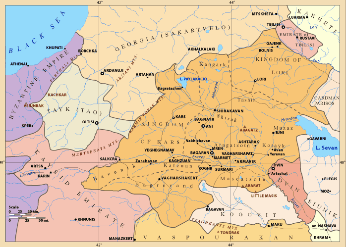 The Bagratid Kingdom of Armenia, 962-1064